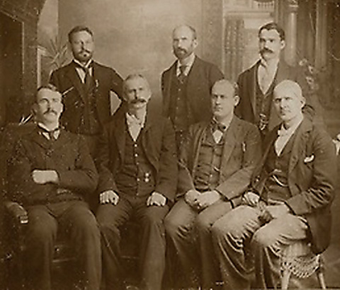 Union leaders Martin J. Elliott and Eugene V. Debs in prison together after their arrest for the Pullman Strike.[1] Elliott was a Director of the American Railway Union and extended the strike to St Louis, drawing in 40,000 workers[2], which was later joined by Eugene Debs. After release Debs became a leader in the Socialist Party, and Elliott and Debs became the first Social Democratic Party Candidates to run for federal office. Elliott later died in surgery for complications from injuries sustained jumping from a runaway train. Photograph was taken at Woodstock Jail. Debs is far right front row. Elliott is center rear.